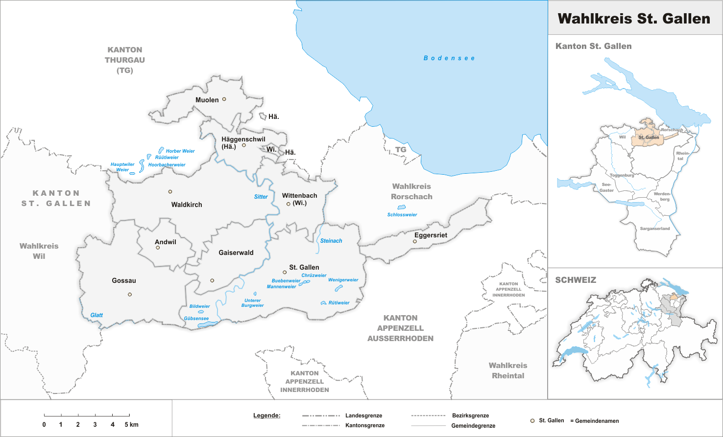 Municipalities in the district of St. Gallen